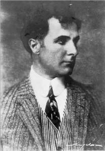 Alfred Deesy, ca. 1910